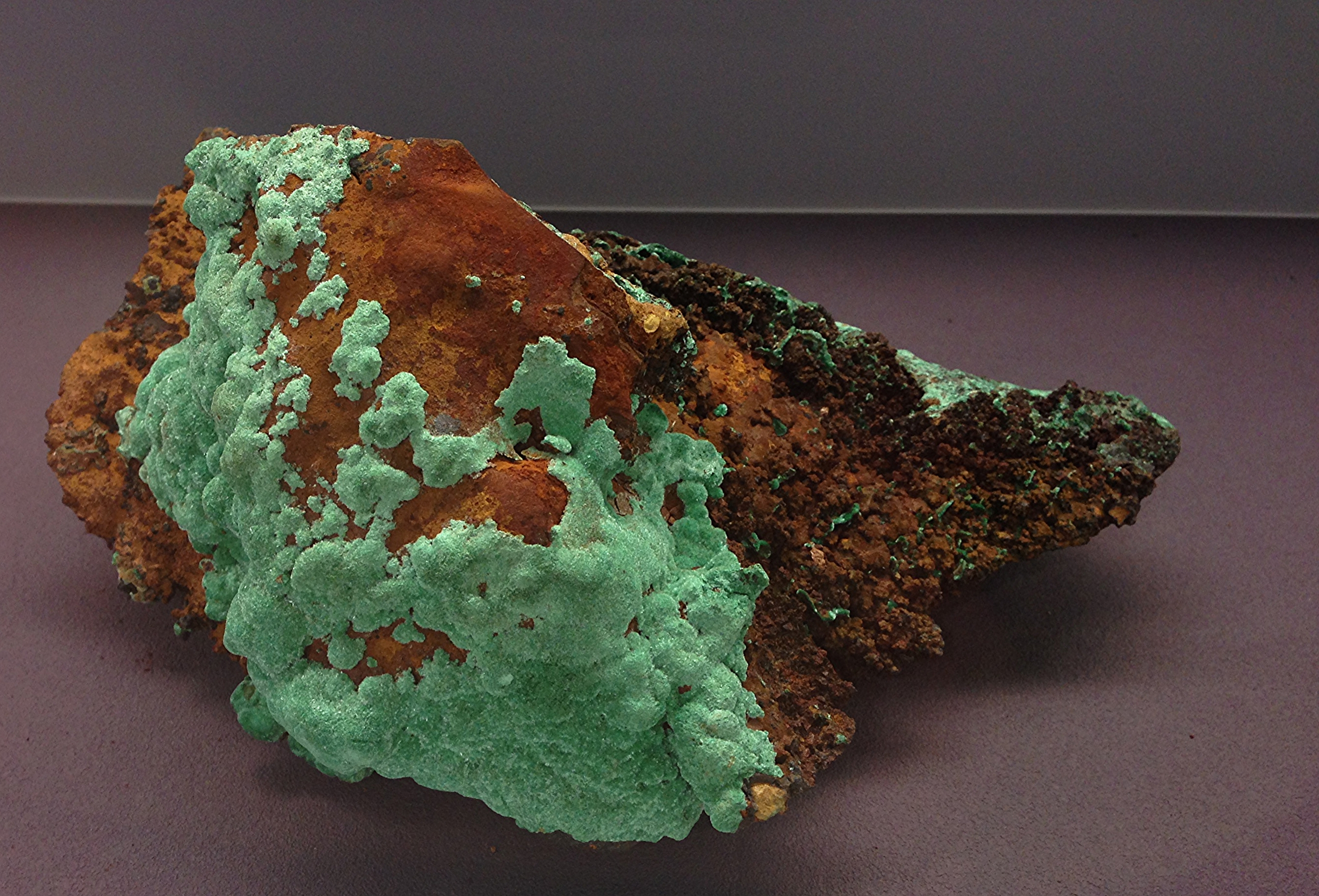 Woodlawn Mine near Tarago NSW